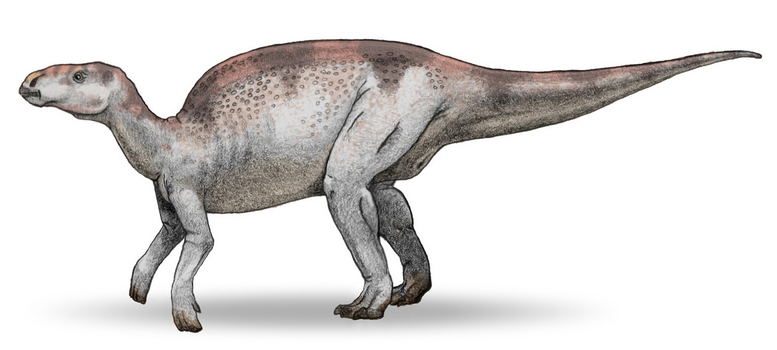 Probactrosaurus hecho por Deibvort